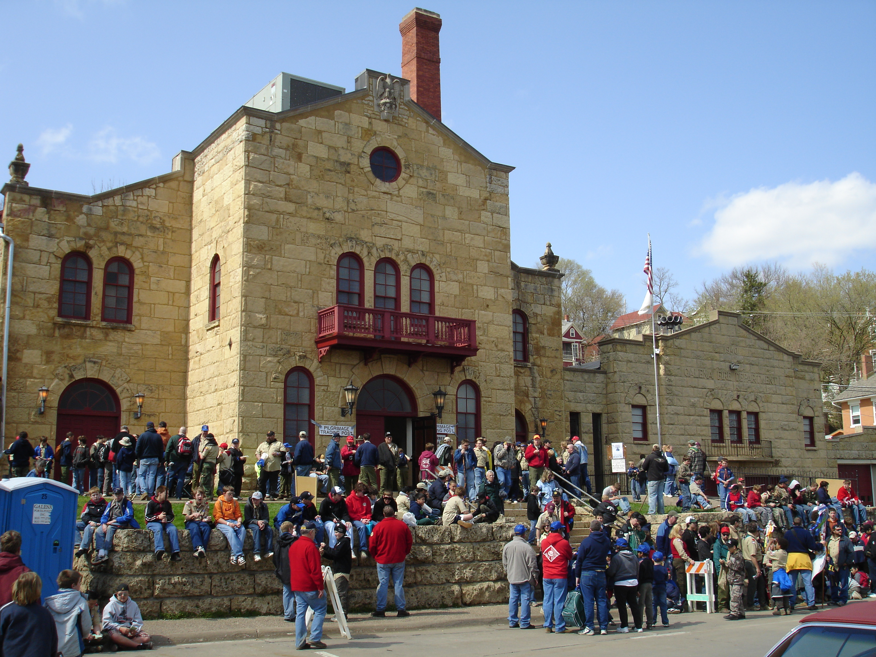 Boy Scouts on their annual Ulysses S. Grant Pilgrimage gather in front of Turner Hall and Fire Department, part of the Galena Historic District in Galena, Illinois, USA. U.S. National Register of Historic Places